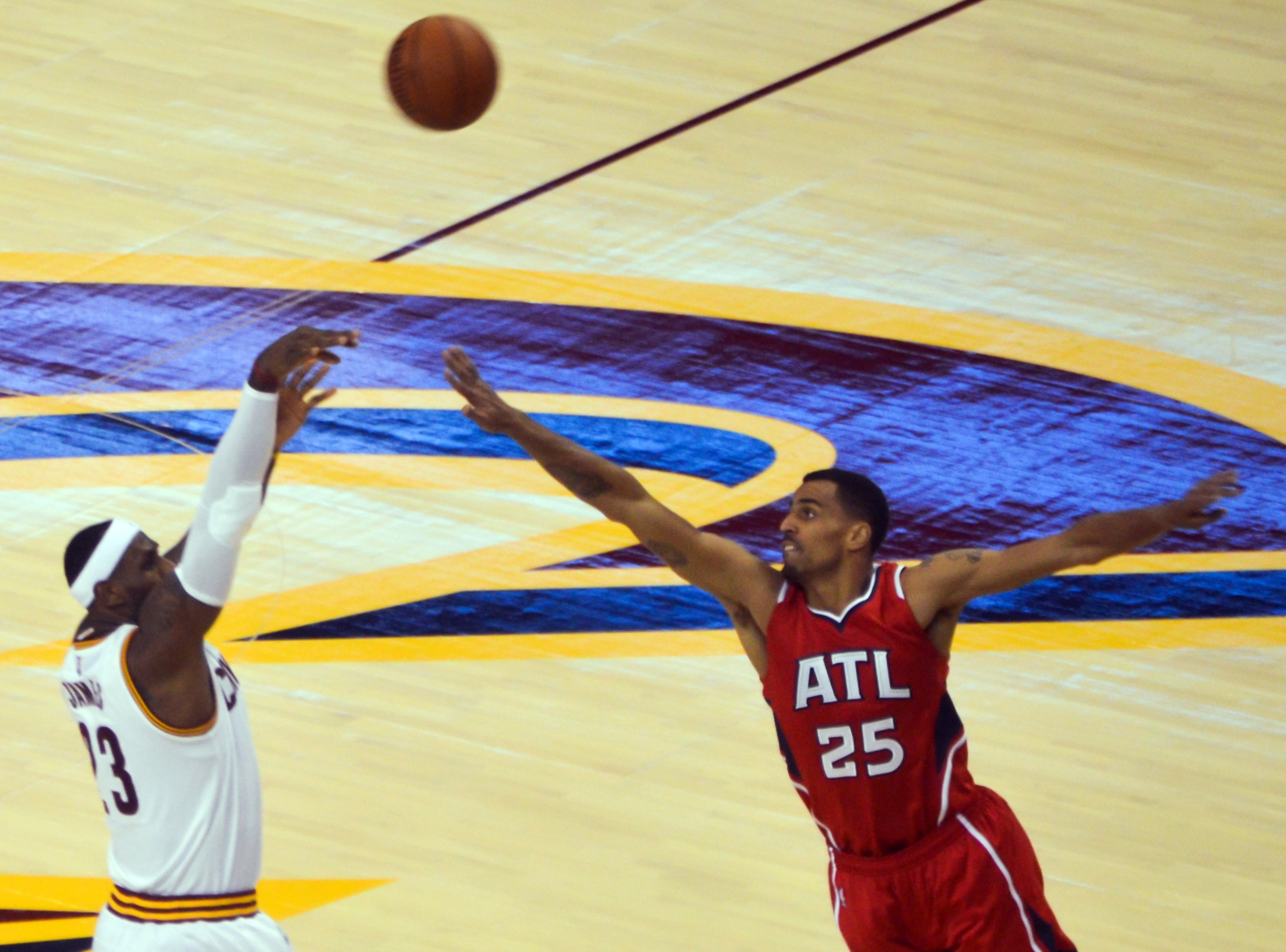 Just before Lebron [The King, better than Curry] scores an INSANE 3 pointer against the Hawks @ Cavs, 15 November 2014